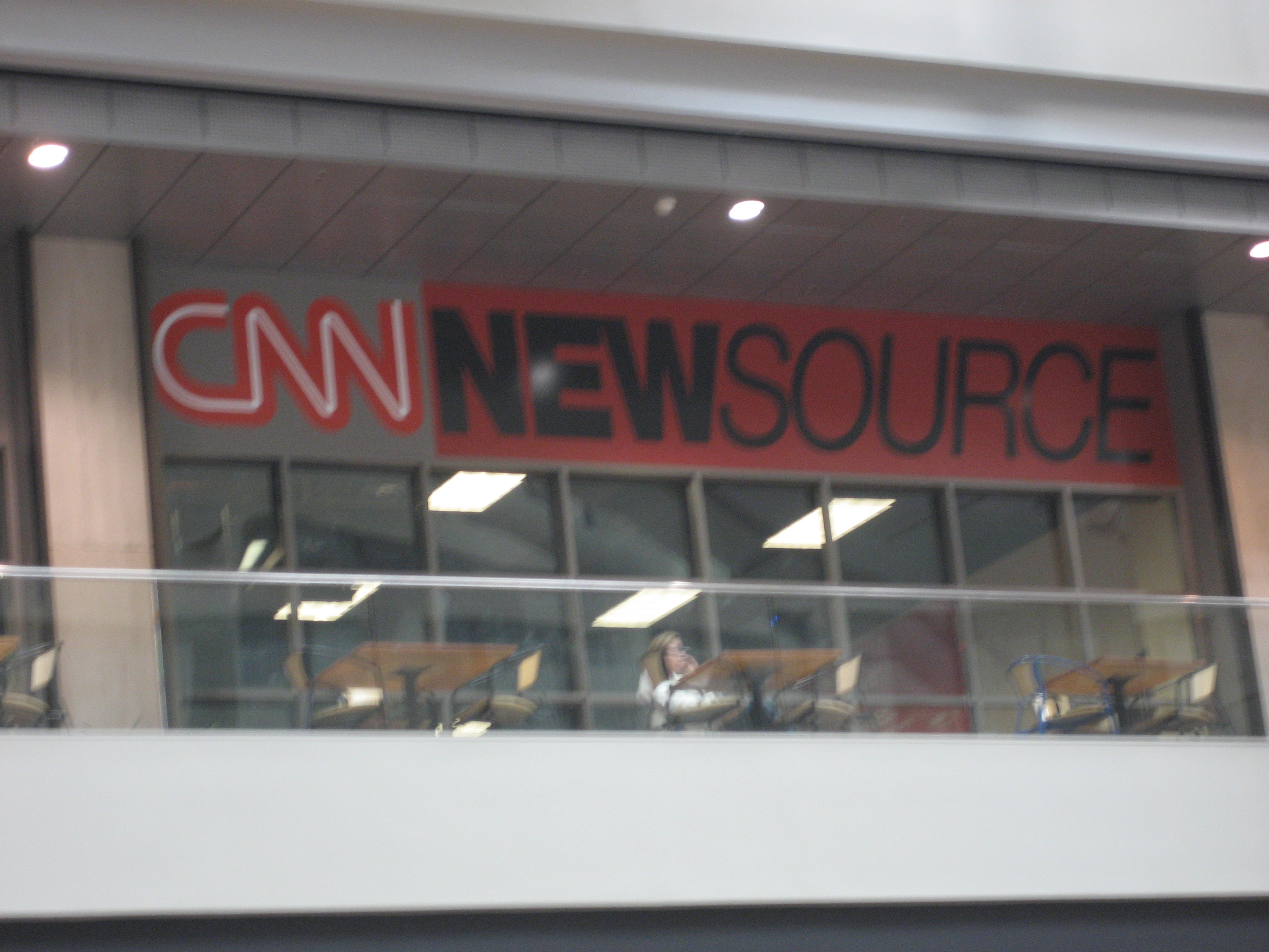 CNN NewSource Offices in the CNN Center in Atlanta. Photo: Chris Green